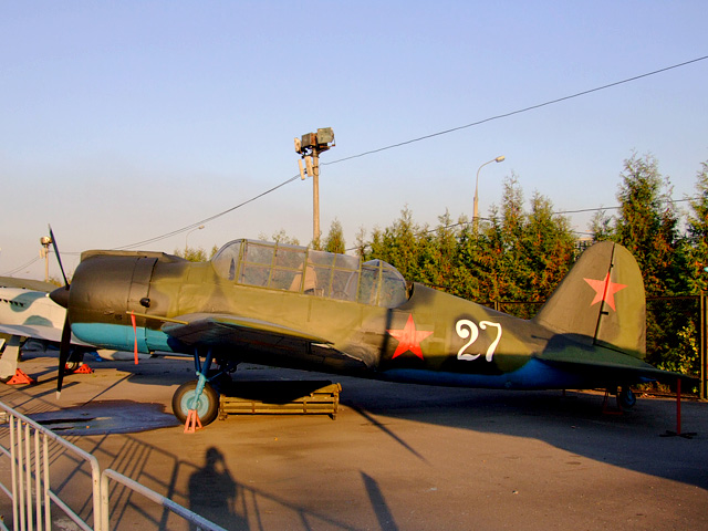 Su-2. Poklonnaya Gora in Moscow.